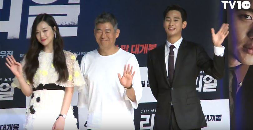 The cast of the 2017 korean movie "Real".